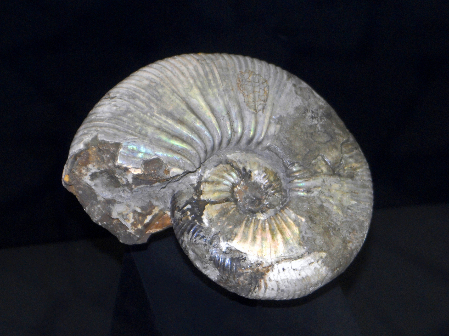 Fossil specimen of Acanthohoplites hannoverensis from Hannover (Germany), Lower Cretaceous. On display at Museo di Scienze Naturali Enrico Caffi, Bergamo